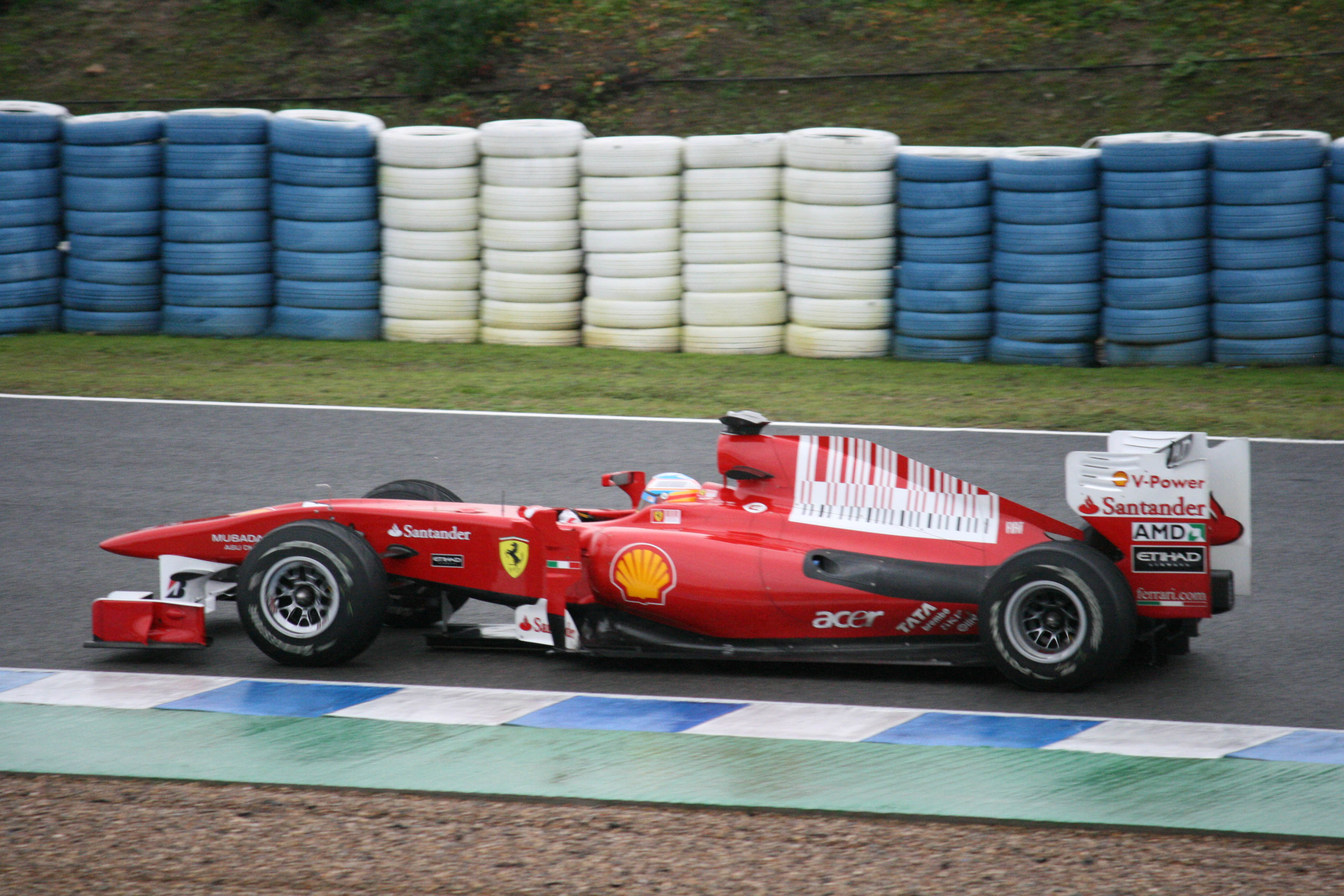 Fernando Alonso testing for Scuderia Ferrari at Jerez, 10/02/2010.